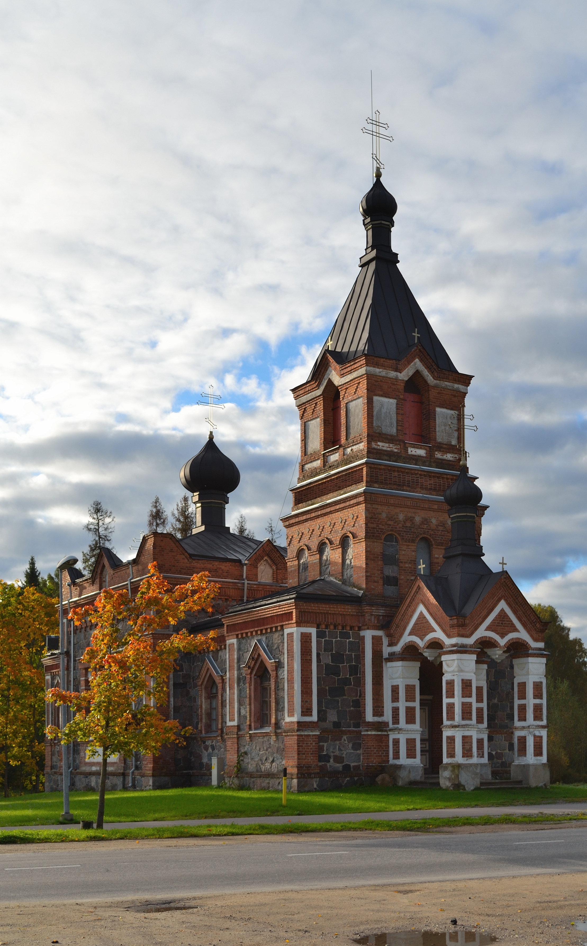 Kohila orthodox church, built in 1899-1900